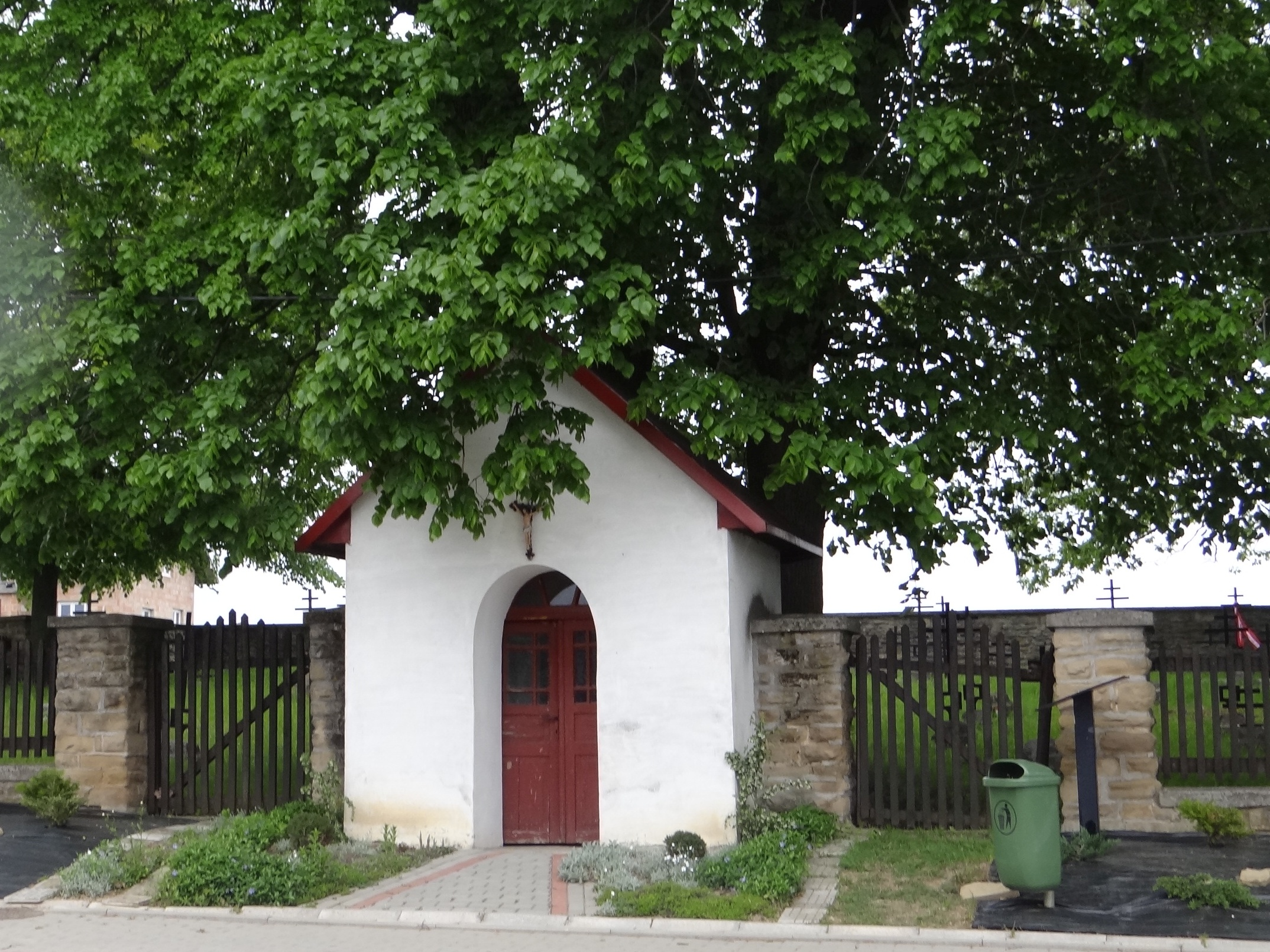 World War I Cemetery nr 117 in Staszkówka